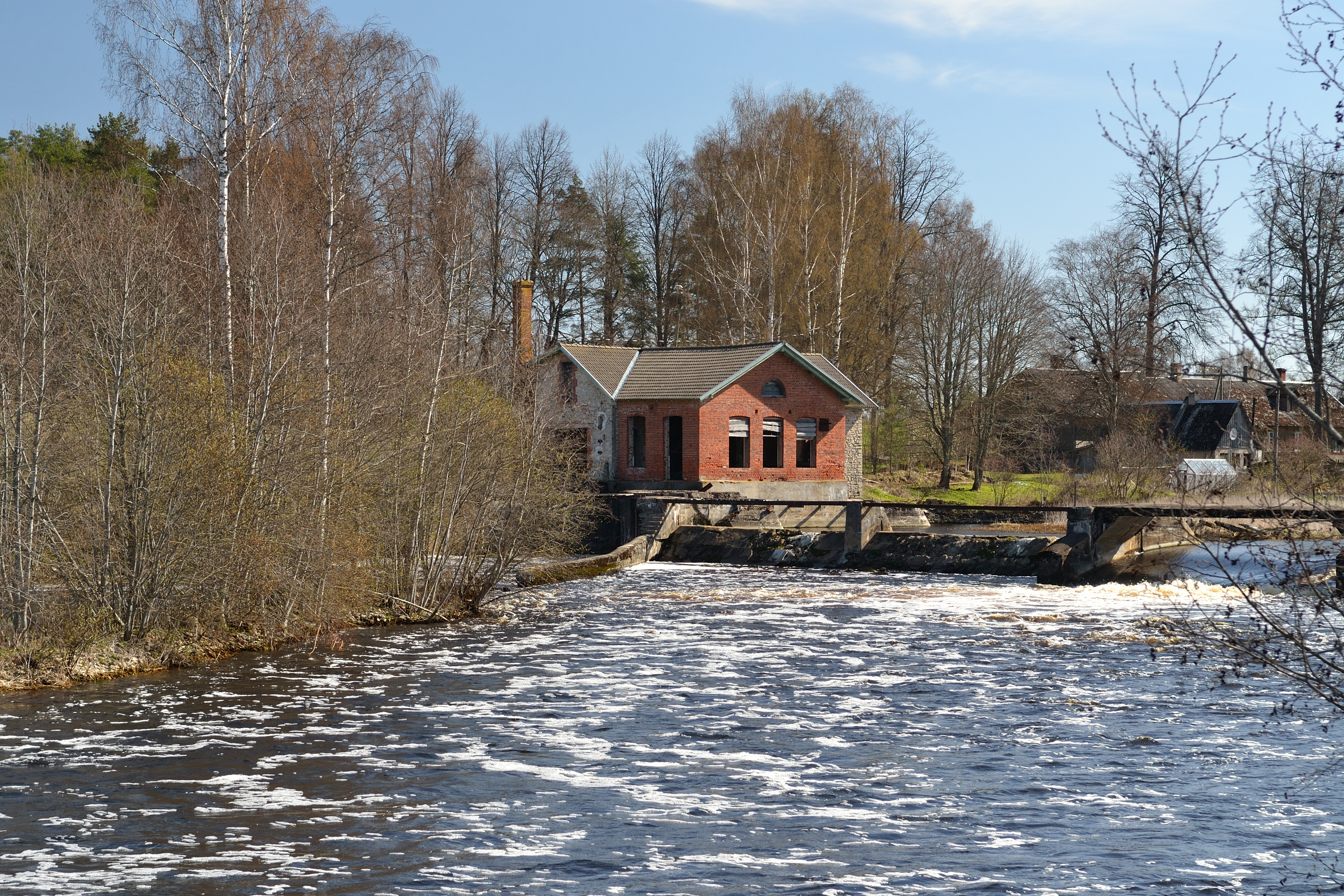 Ruins of Jändja watermill